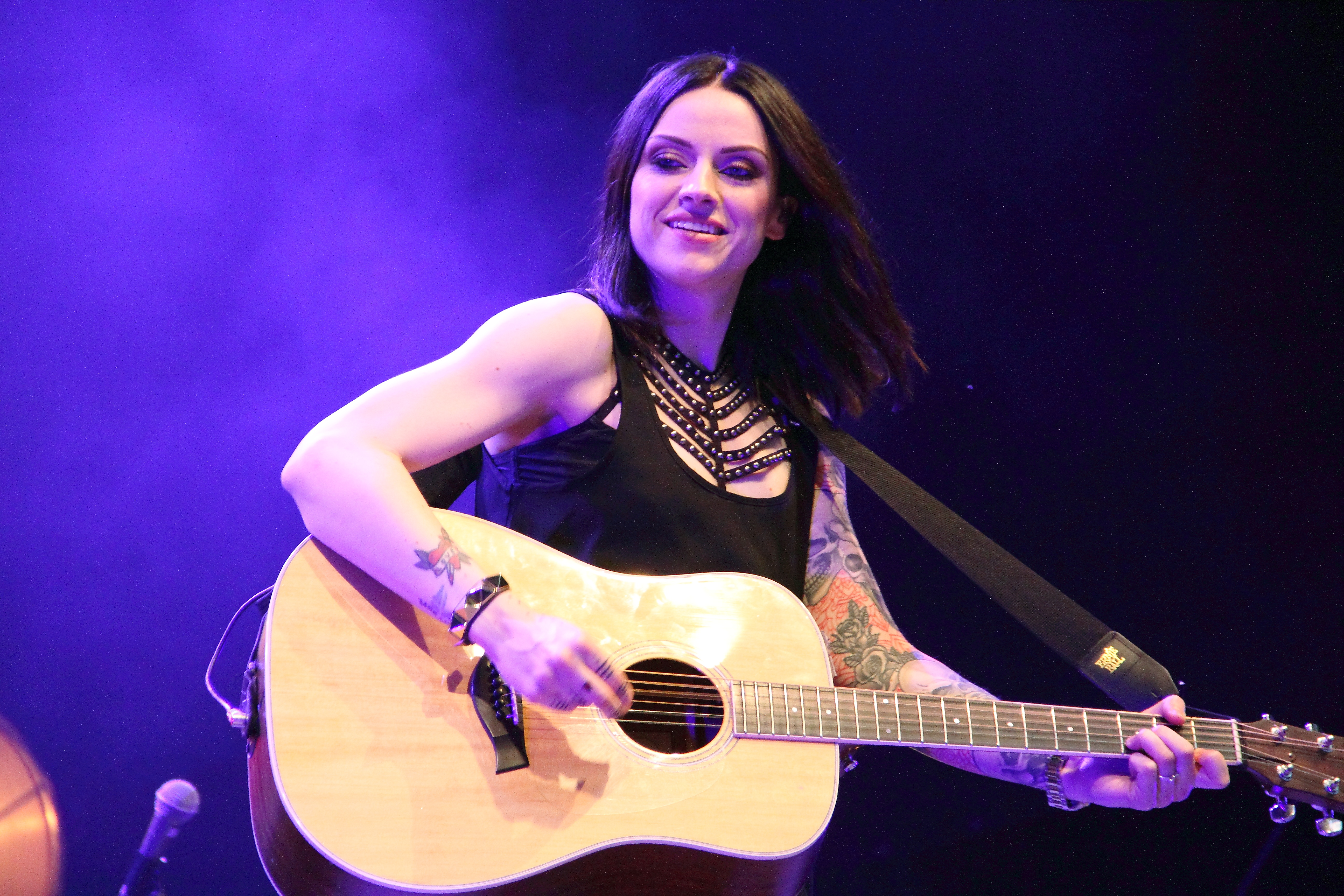 Amy Macdonald at Rudolstadt-Festival 2017.